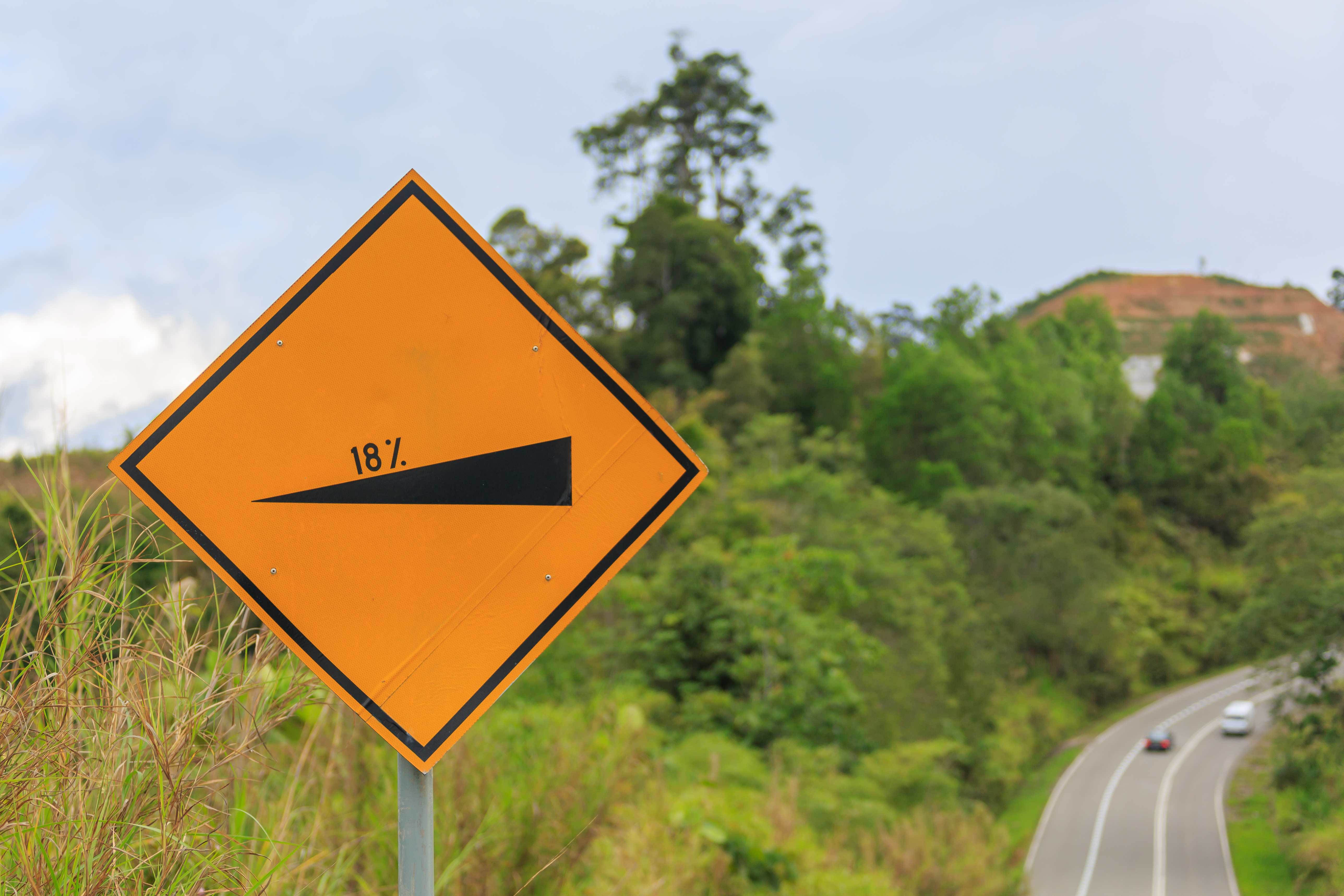 Traffic signs in Malaysia: Warning sign "Steep grade" at the Kimanis-Keningau-Road)